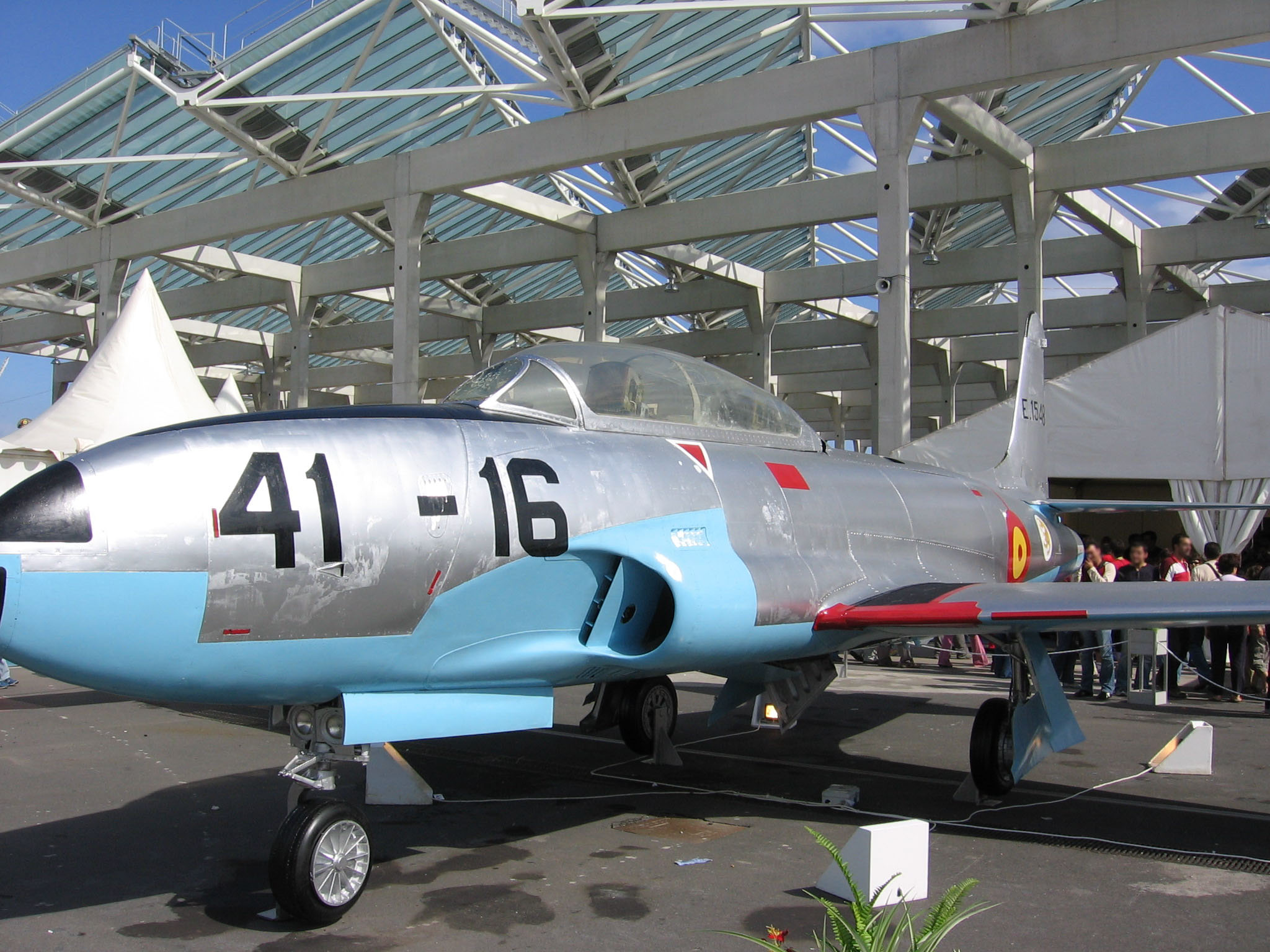 Spanish Air Force Lockheed T-33 Shooting Star in the Festa del Cel, in Barcelona (Spain).